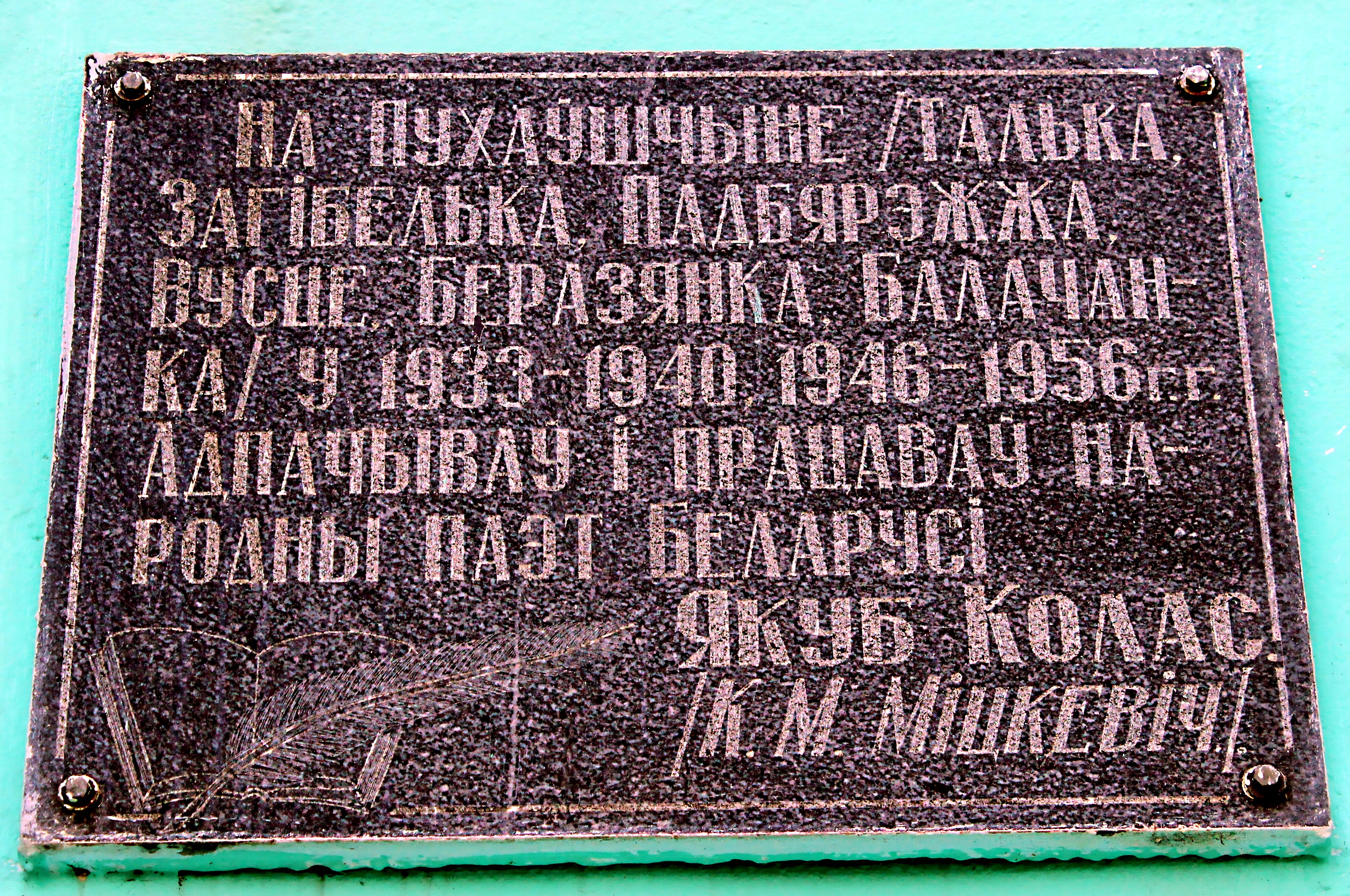 Plaque of Yakub Kolas in the station of Talka